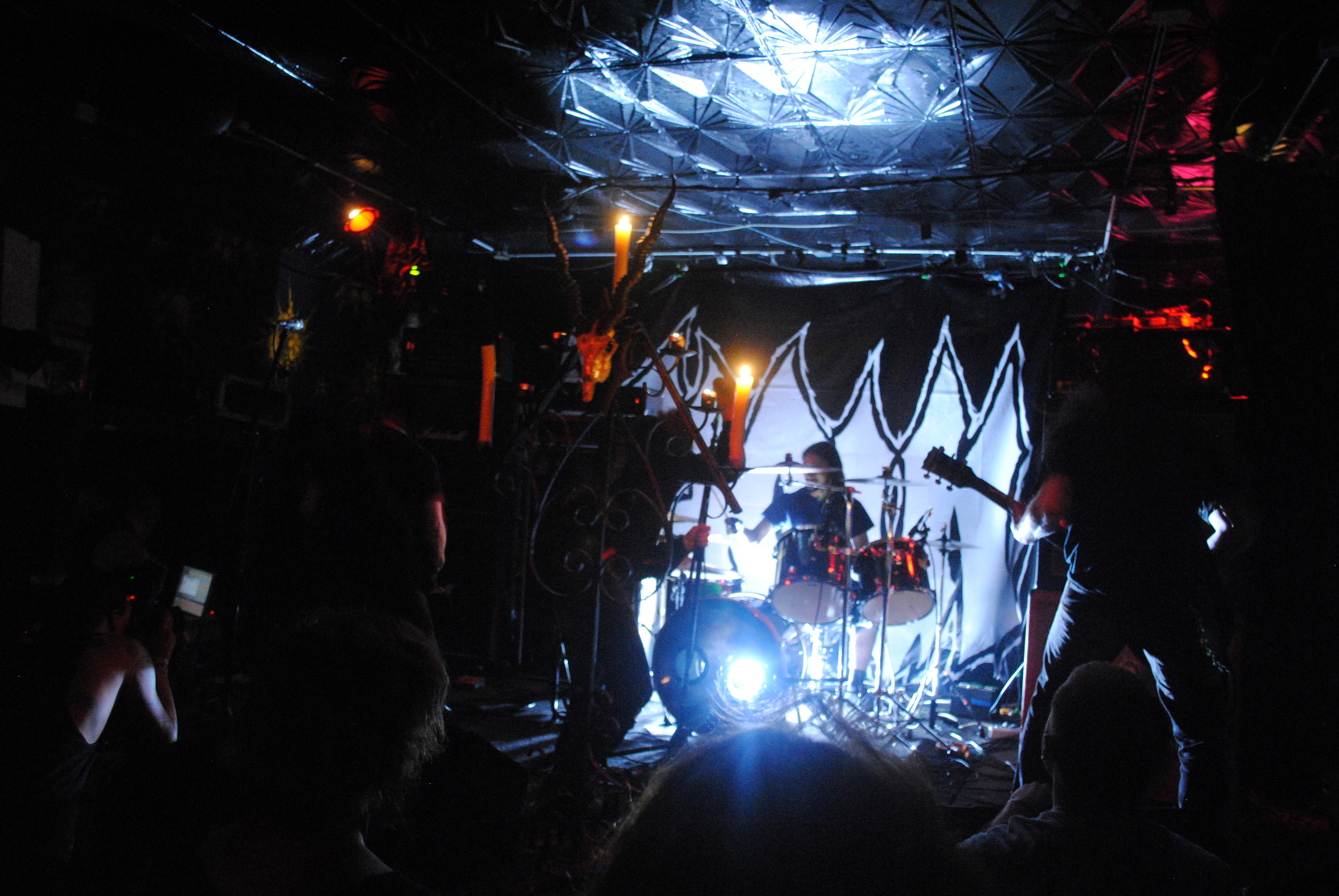 Published on